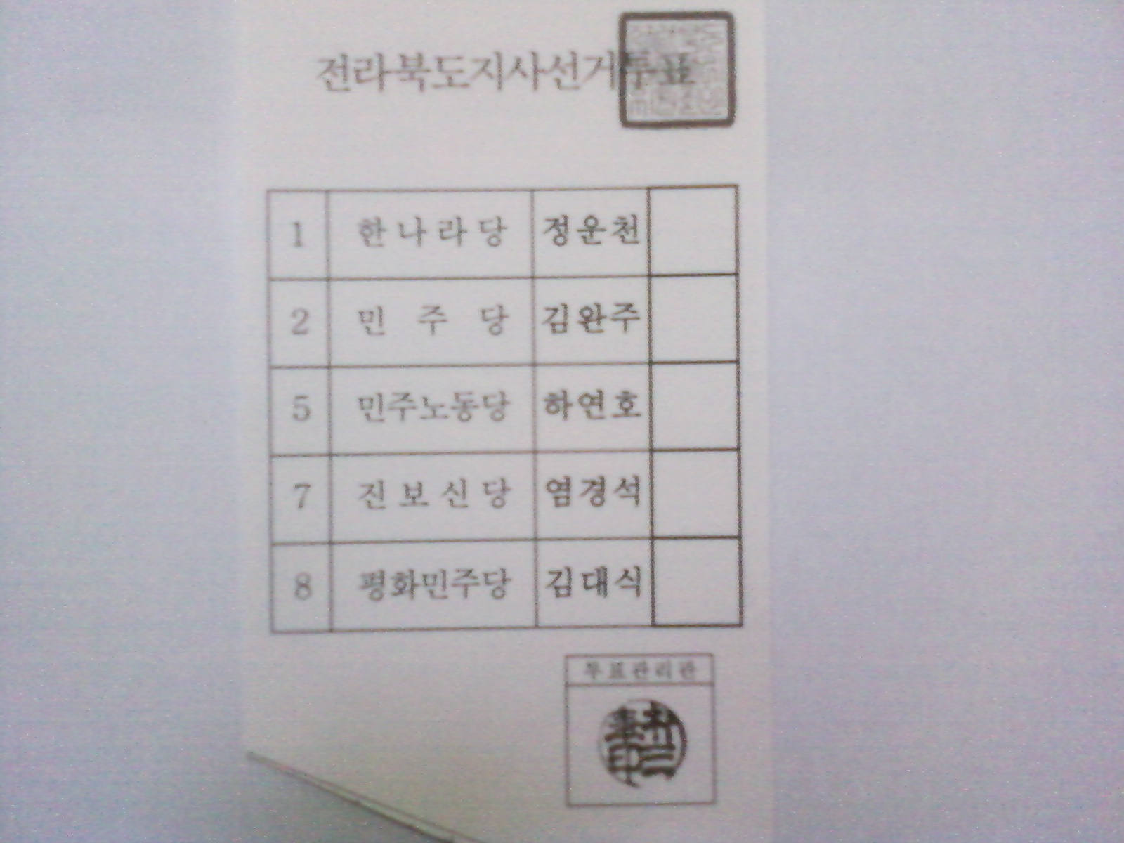 Korean 5th local election ballot paper Jeollabukdojisa (president of Jeollabuk-do) 1. Jeong Un Cheon / Hannaradang (Jung Woon Chun / Grand National Party) 2. Gim Wan Ju / Minjudang (Kim Wan Ju / Democratic Party) 5. Ha Yeon Ho / Minjunodongdang (Ha Yeon Ho / Democratic Labor Party) 7. Yeom Gyeong Seok / Jinbosindang (Yeom Kyung Suk / New Progressive Party of Korea) 8. Gim Dae Sik / Pyeonghwaminjudang (Kim Dae Sik / Peace Democratic Party)